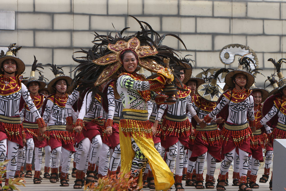 Sinulog 2010, Cebu City